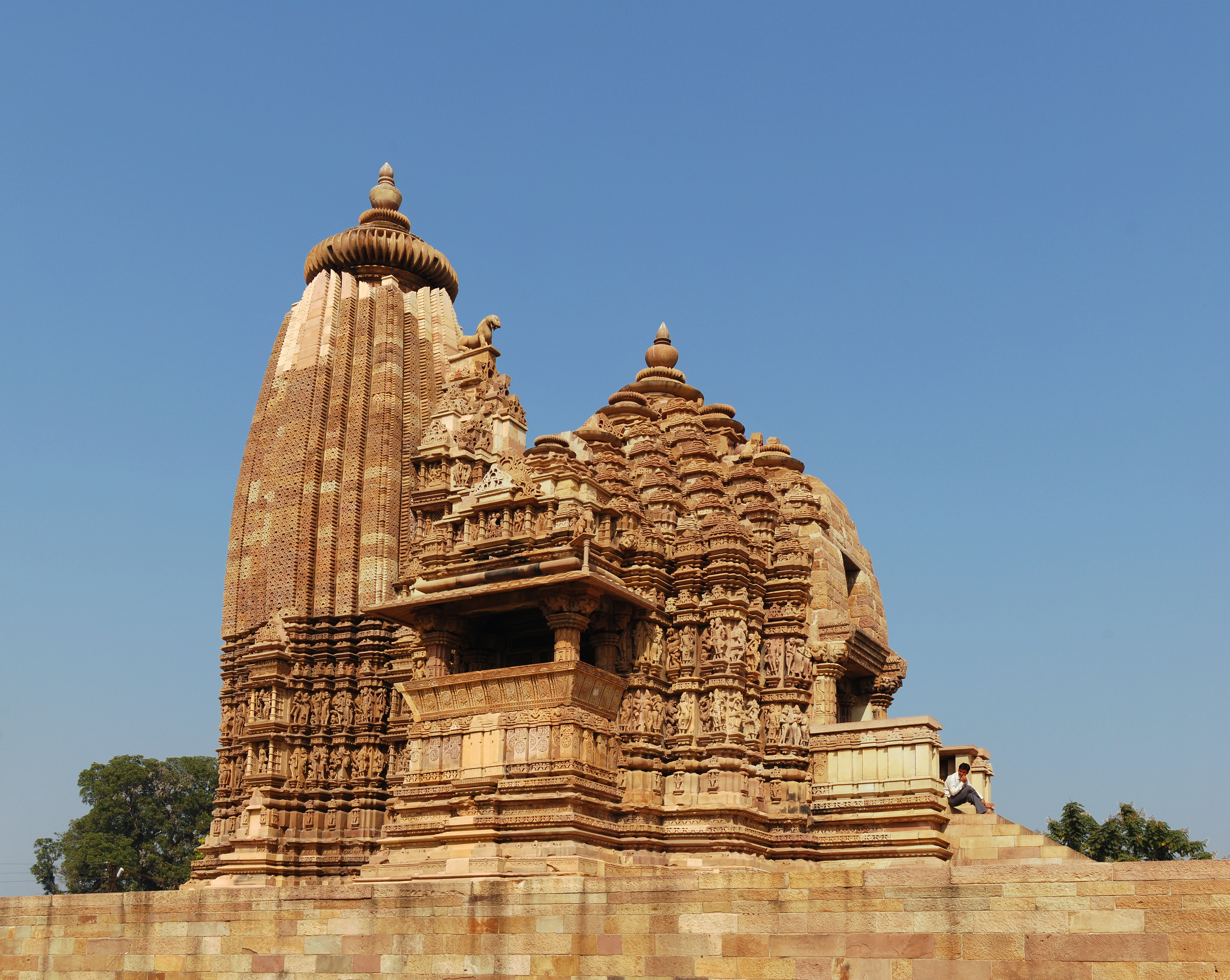 Vaman Temple, Khajuraho, India.